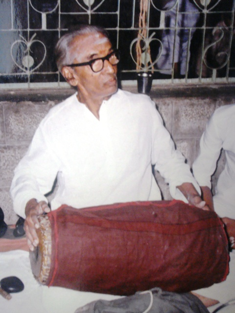 a photo of the late mridangam maestro Ramanathapuram C S Murugabhoopathy